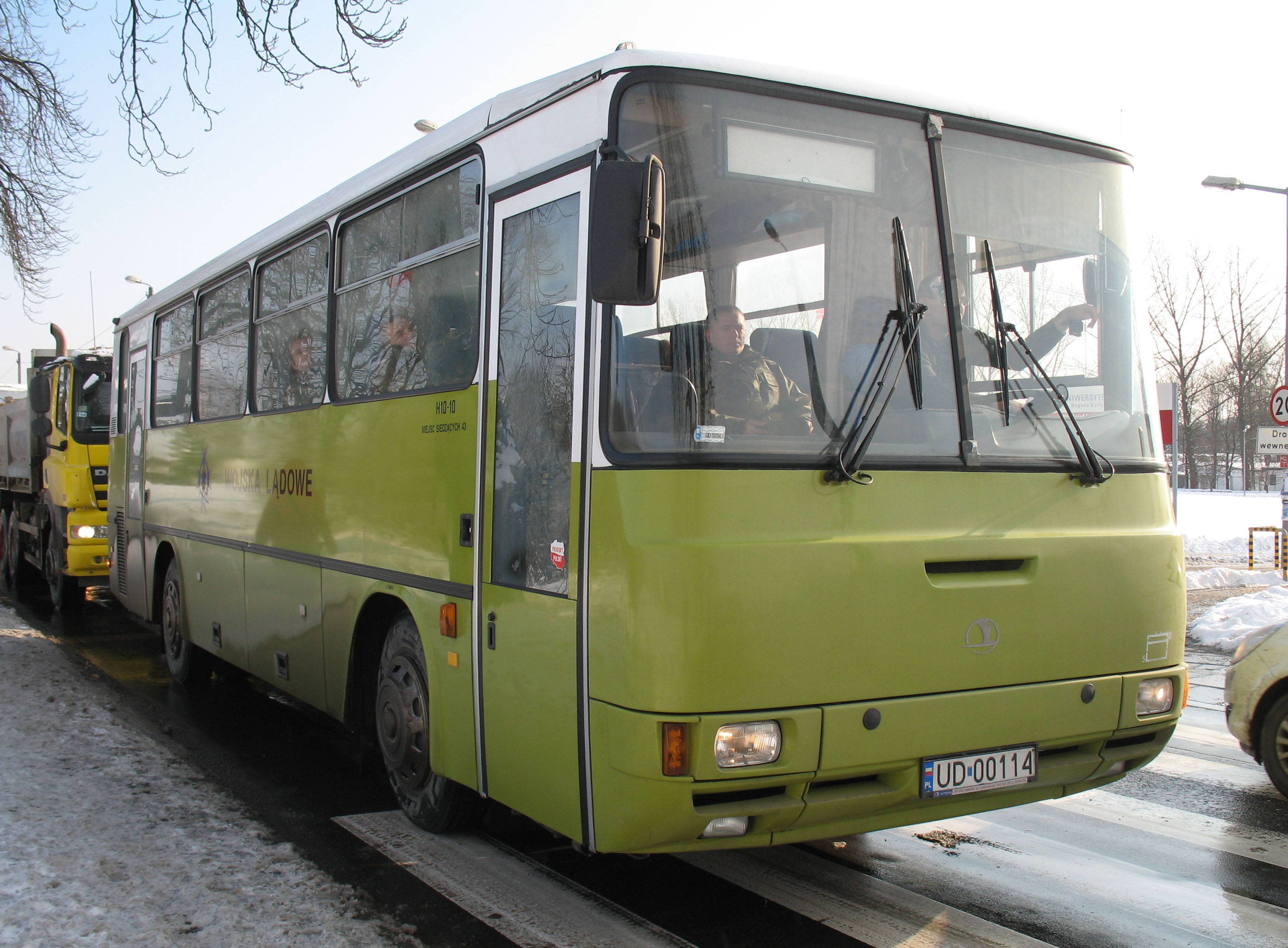 Autosan H10-10 bus (reg. UD 00114) in Kraków, Poland. Wojska Lądowe from Warsaw operator.